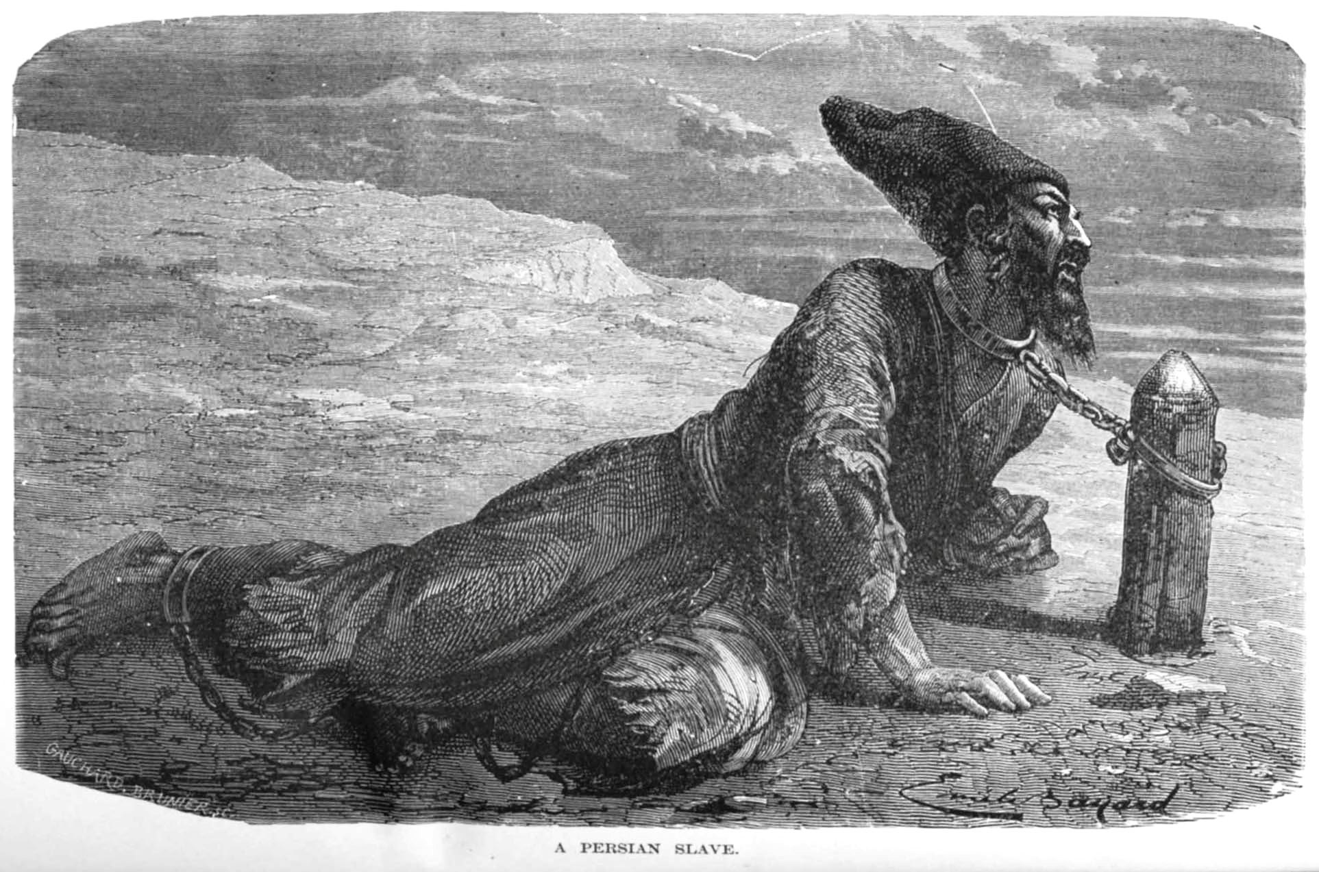 A black & white illustration of a Persian slave in the Khanate of Kiva in the 19th century